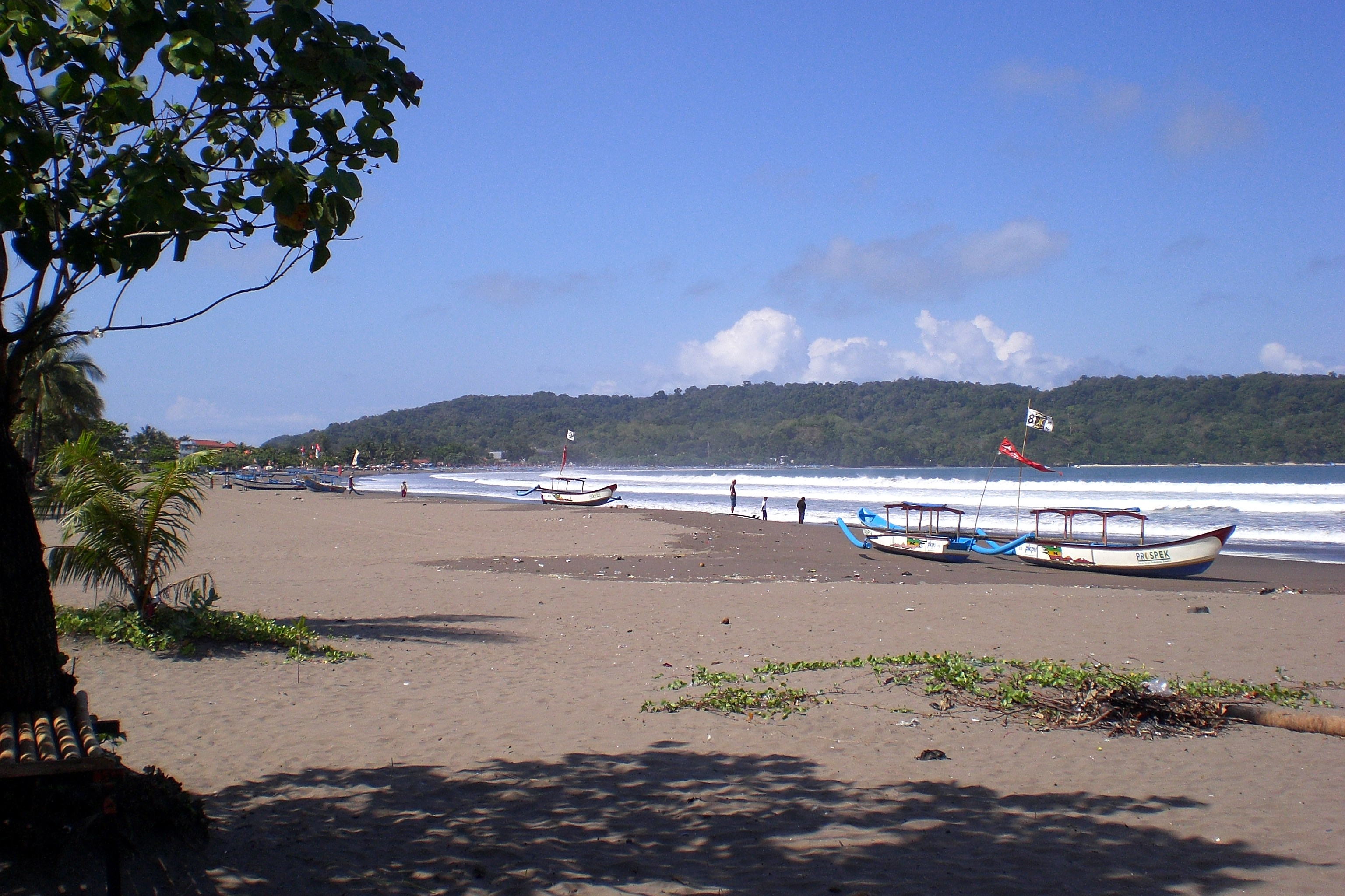 Beach at Pangandaran